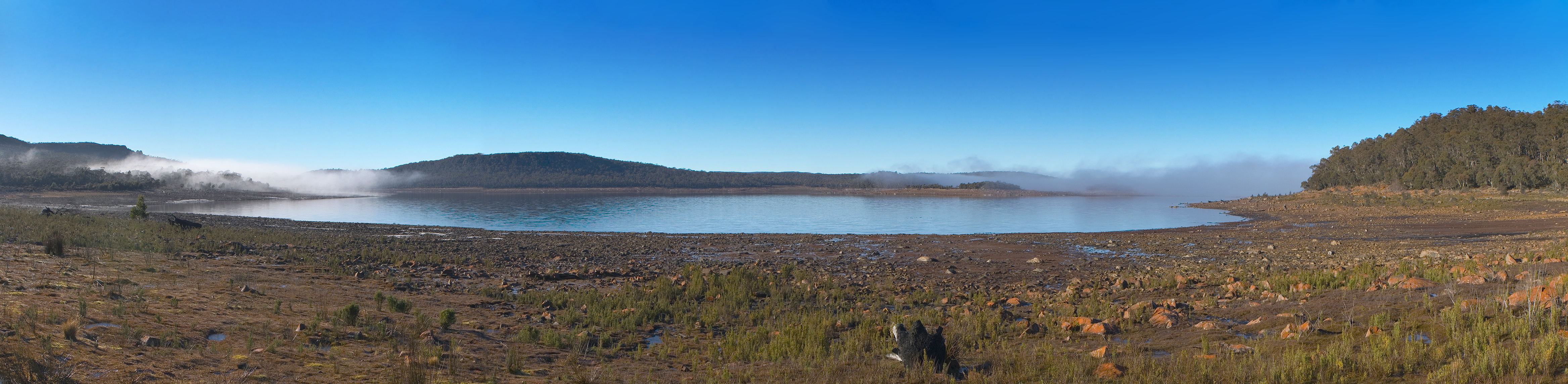 Great Lake, Central Highlands, Tasmania Camera data Camera Canon EOS 400D Lens Canon EF-S 18-55mm f3.5-5.6 IS Focal length 55 mm Aperture f/8 Exposure time 1/40, 1/160, 1/640 s Sensivity ISO 100